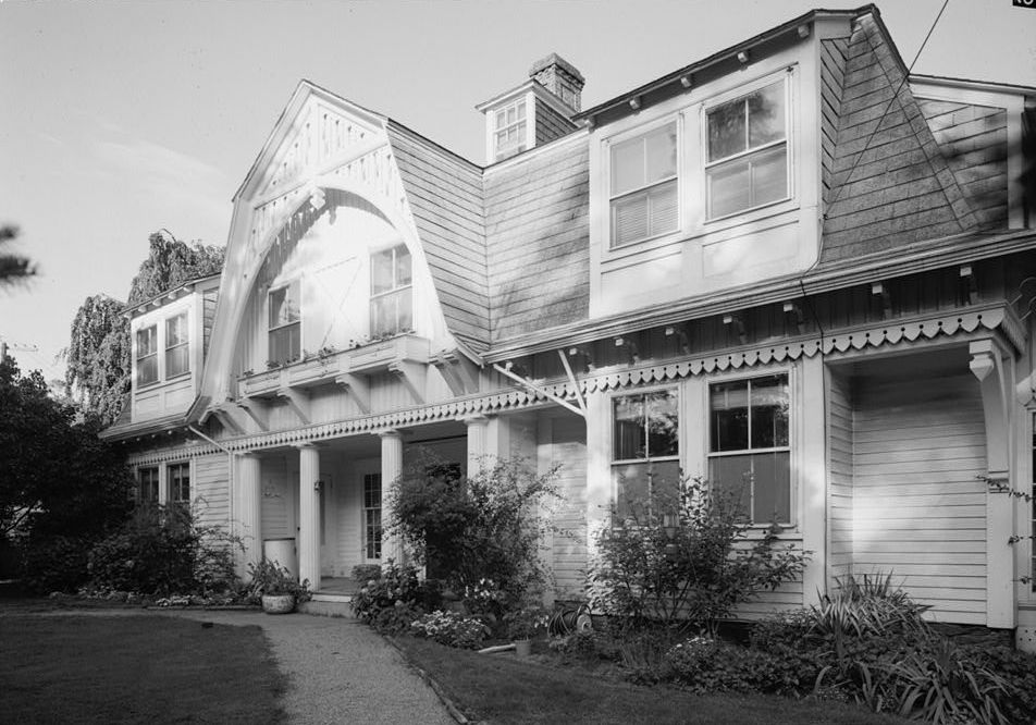 View of the west front of Hypotenuse, home of the architect Richard Morris Hunt, 33 Catherine Street, Newport, Newport County, Rhode Island. Library of Congress, Historic American Buildings Survey, Washington, D.C.